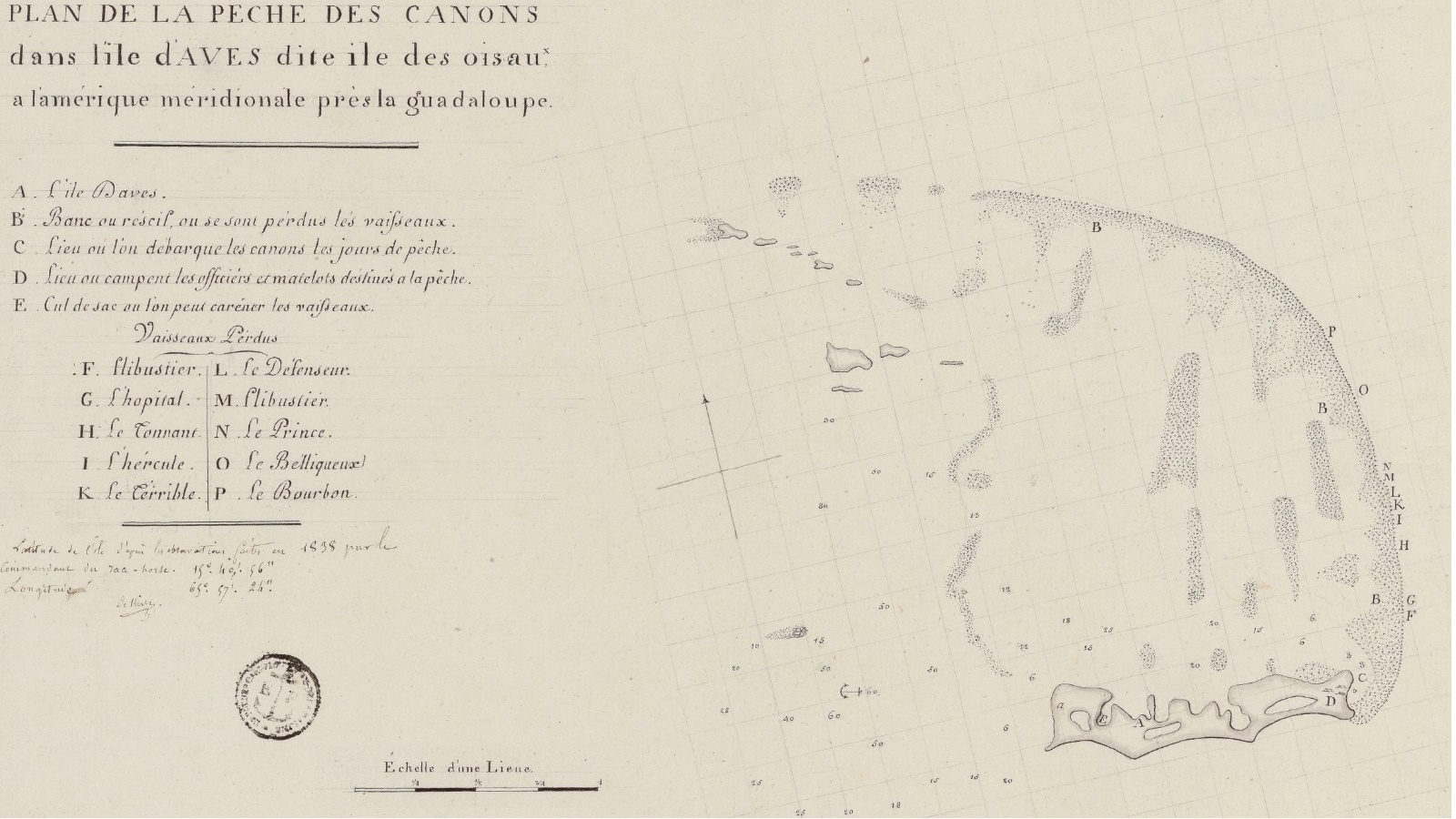 "Plan fishing cannons in the island of Aves also called the island of birds in South America near Guadaloupe": recovery operations of guns and cannonballs on the site of the sinking of the French squadron vice admiral Jean d'Estrée, 1678. Aves Islands (near present-day Venezuela).